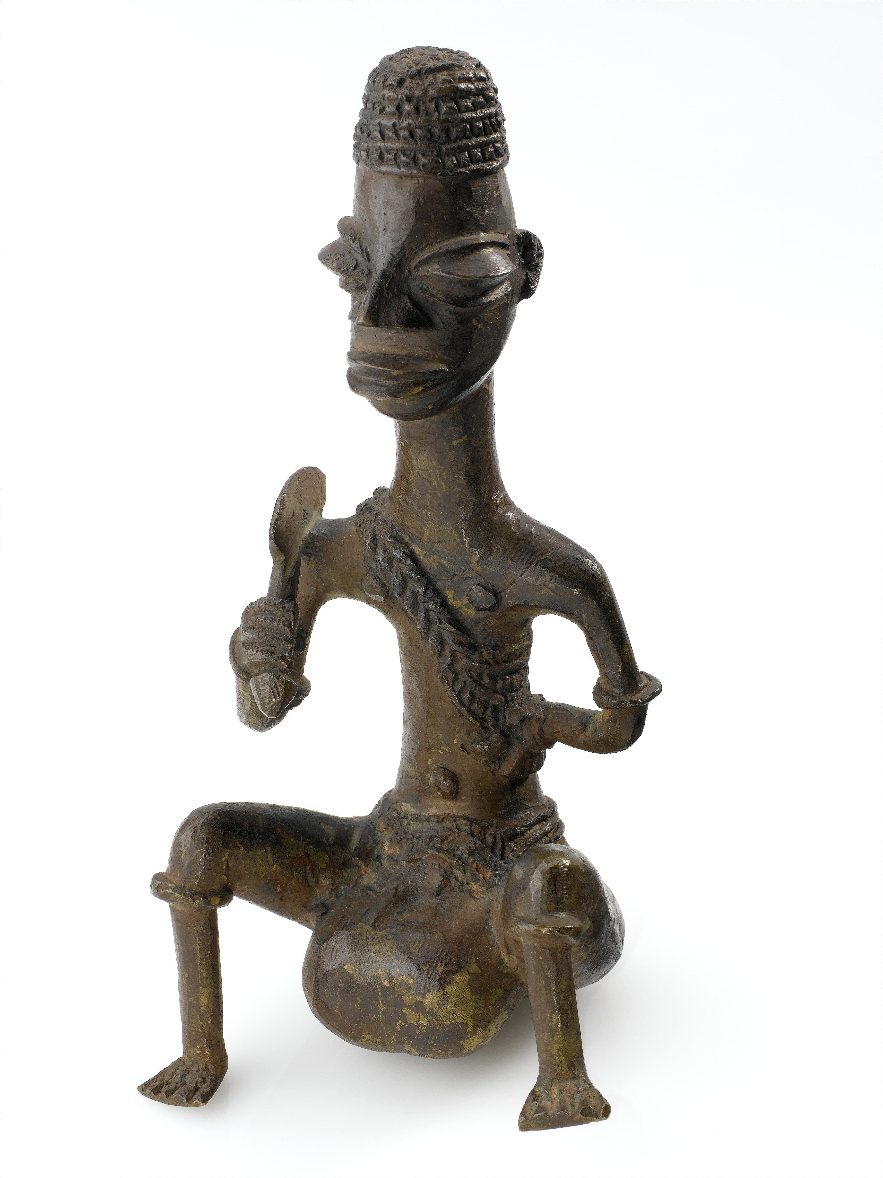 The bronze figure, made by the Yoruba people of Nigeria, clearly shows elephantiasis of the scrotum. Elephantiasis is a now rare disorder of the lymphatic system, the system that carries lymph – which contains white blood cells – around the body. Elephantiasis is a disease most often caused by the presence in the body of tiny parasitic worms, which are themselves transmitted via mosquitoes. Once in the body, they can create blockages in the lymphatic system which in turn cause swellings. Left untreated, these swellings can become enormous; the name of the disease evokes the elephant-like swelling that can occur in the limbs. maker: Yoruba people Place made: Abeokuta, Ogun, Nigeria Wellcome Images Keywords: Elephantiasis; Pathology; Scrotum; statue